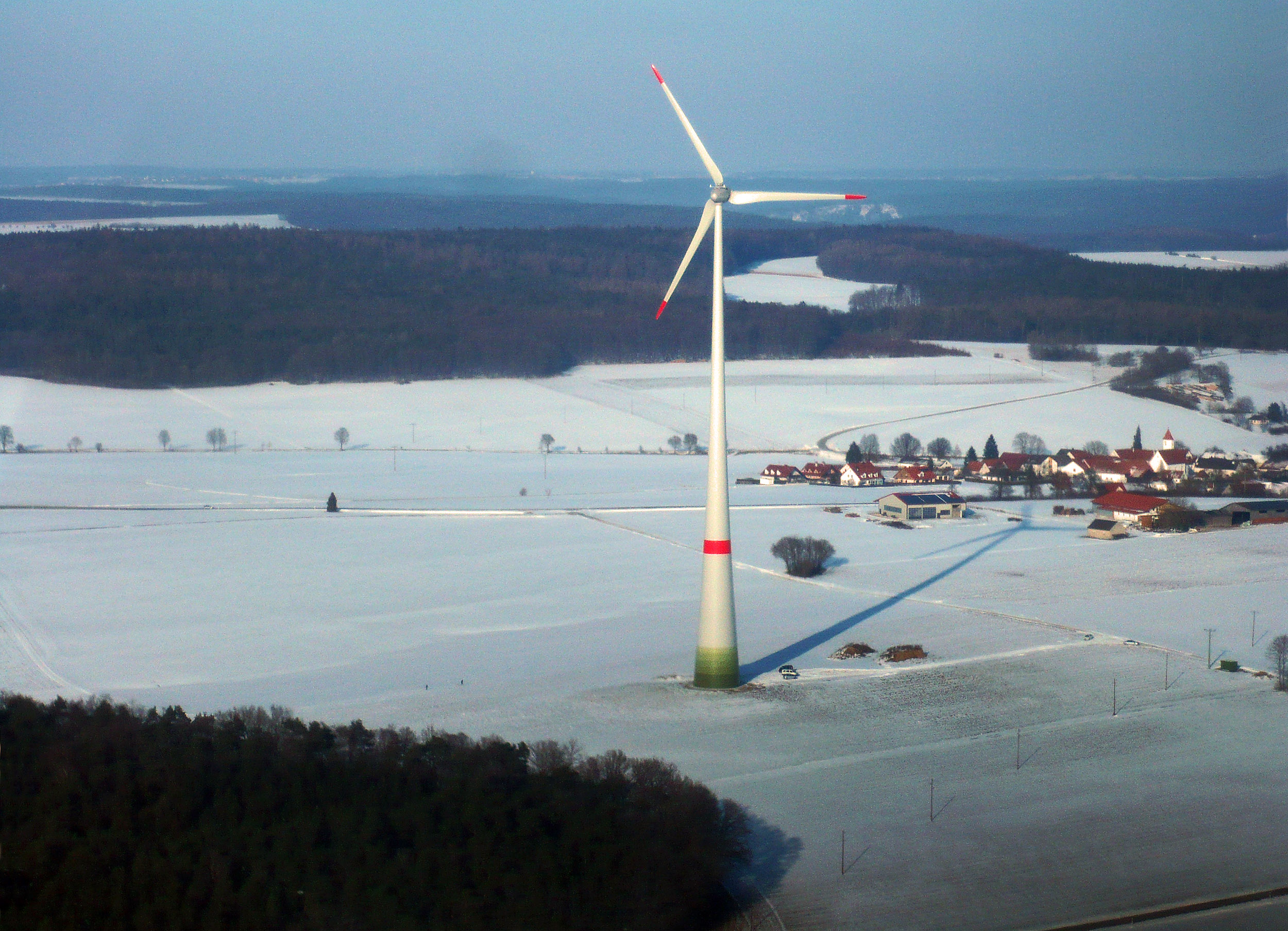 Aerial photograph of the wind turbine between Ammerfeld, Burgmannshofen und Kienberg